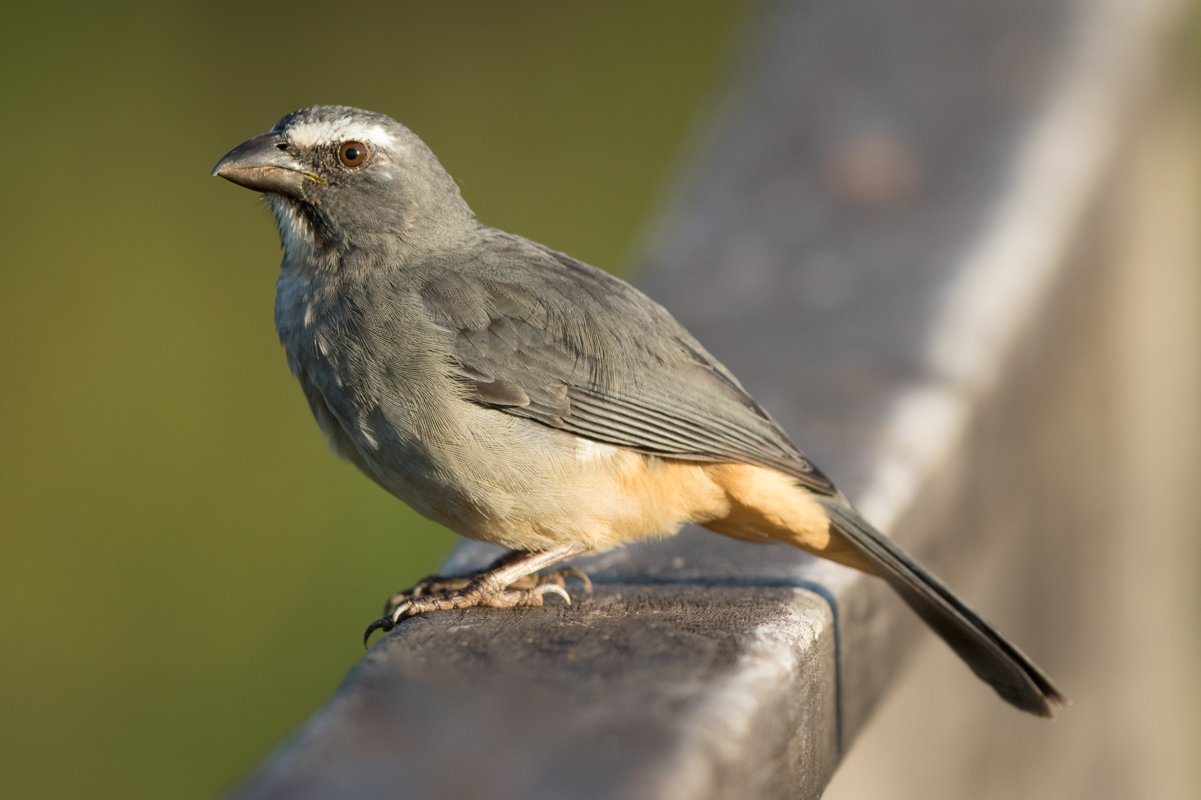 Greyish saltator